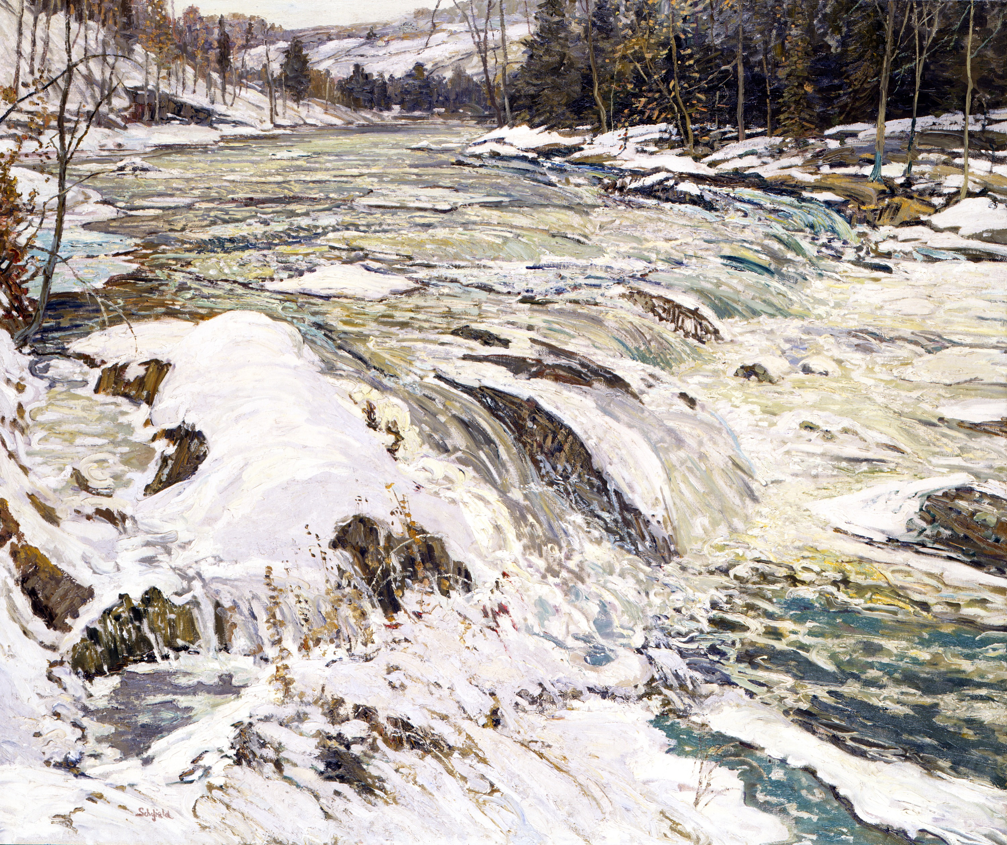 The Rapids (circa 1914), by Walter Elmer Schofield.